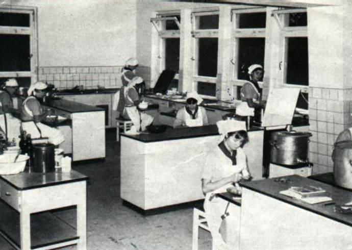 Reifensteiner Schule Chattenbühl Lehrküche